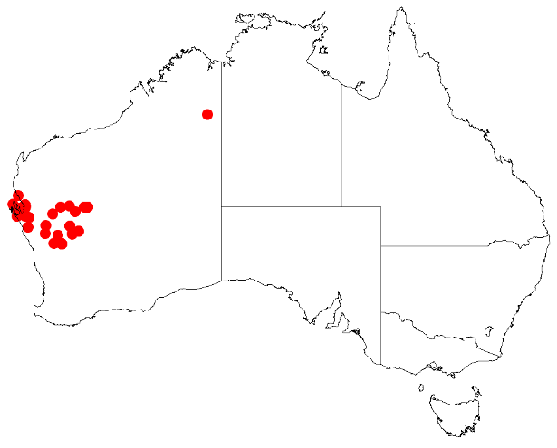 Acacia microcalyx Occurrence data from Australasia Virtual Herbarium downloaded from on 8 December 2018